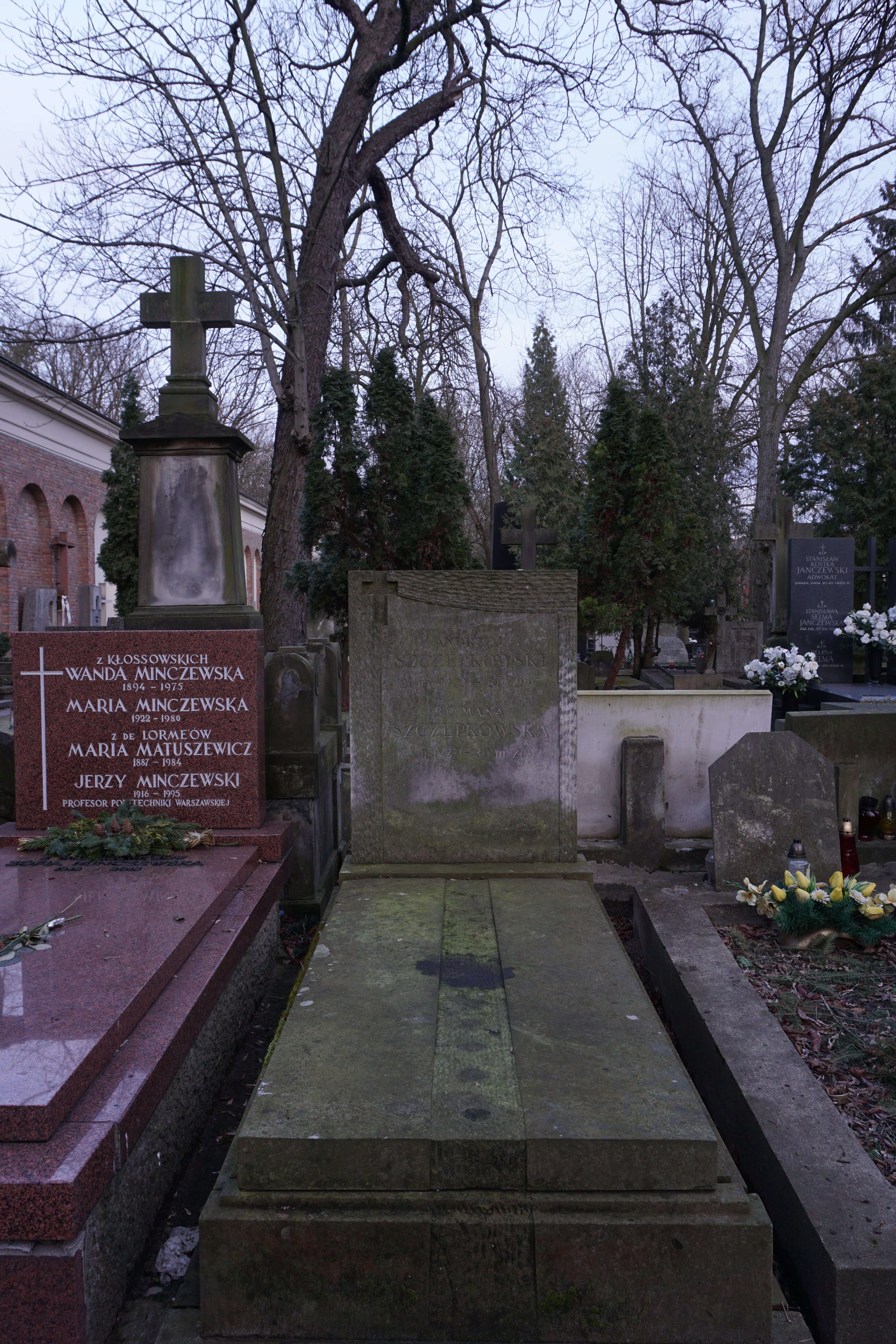 The grave of Andrzej Szczepkowski at the Powązki Cemetery (section 172, row 2, grave 5)